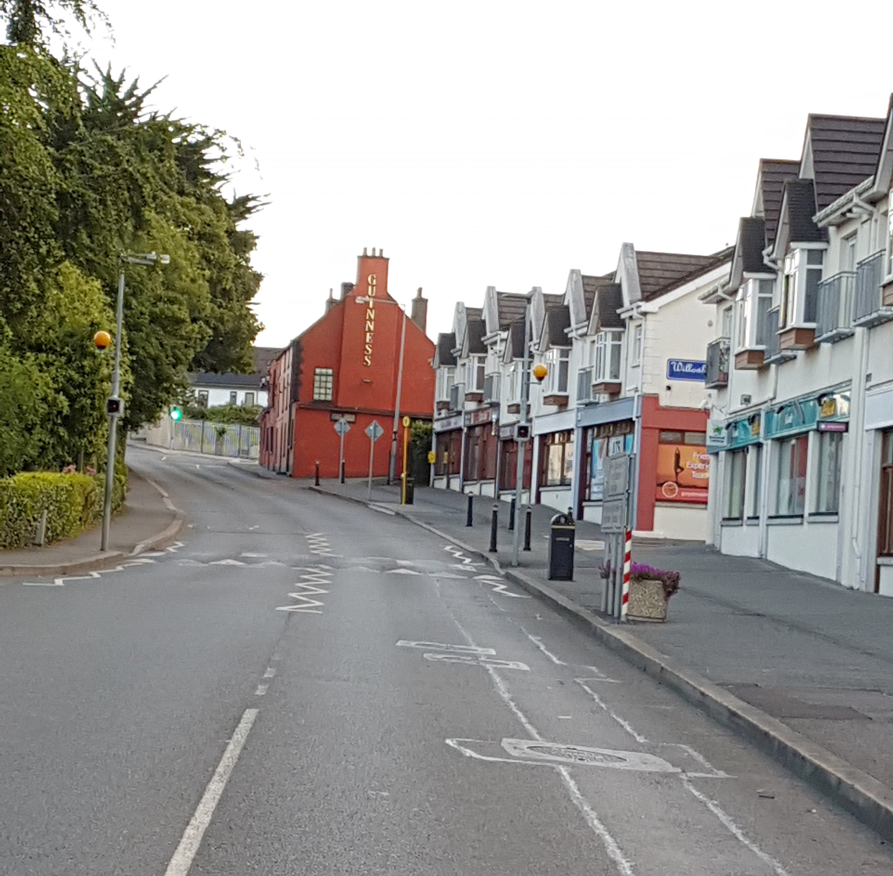 R761 in Kilcoole, County Wicklow, Ireland.